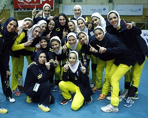 Iranian women volleyball league - Gas Tehran